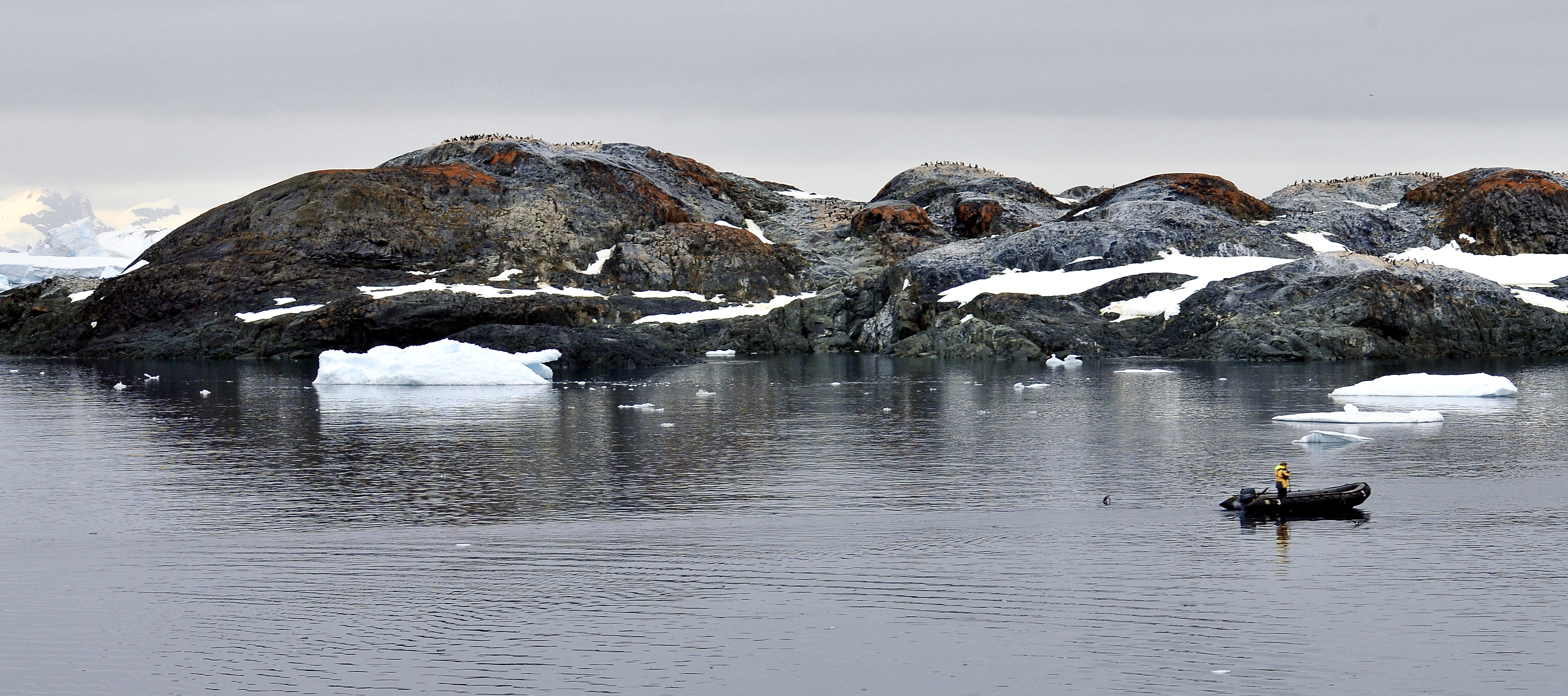 One of the Yalour Islands, Wilhelm Archipelago, Antarctica